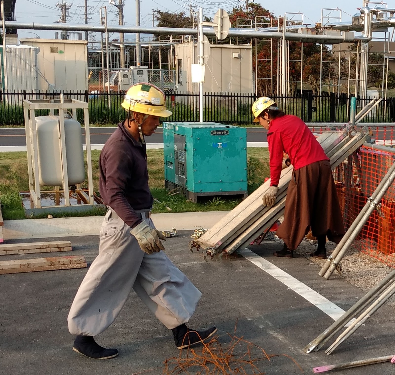 Two workers on a construction site in Yamaguchi Prefecture, Japan, wearing tobi pants and jika-tabi.